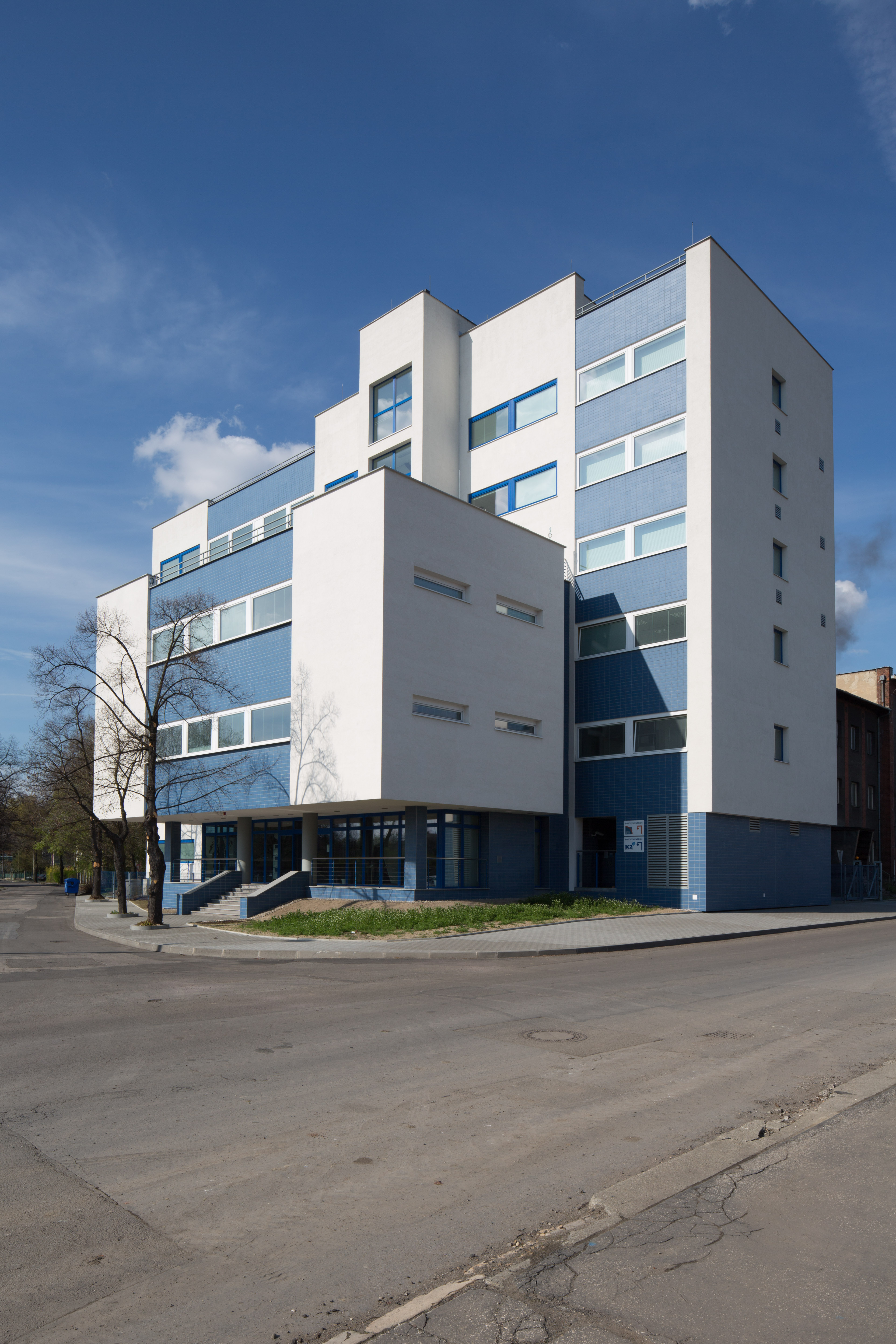 New headquarters of K2 atmitec s.r.o.